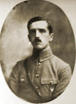 Edmund Szeparowycz, (1889-1967), Ukrainian military, major of Ukrainian Galician Army